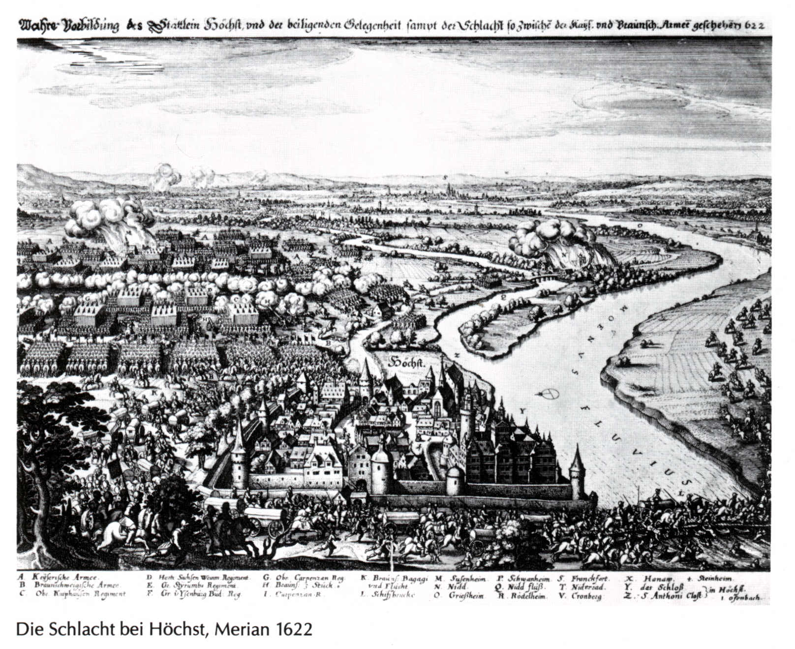 True depiction of the small town of Höchst, and its surroundings including the battle which happened between the Imperial and Brunswick armies in 1622.